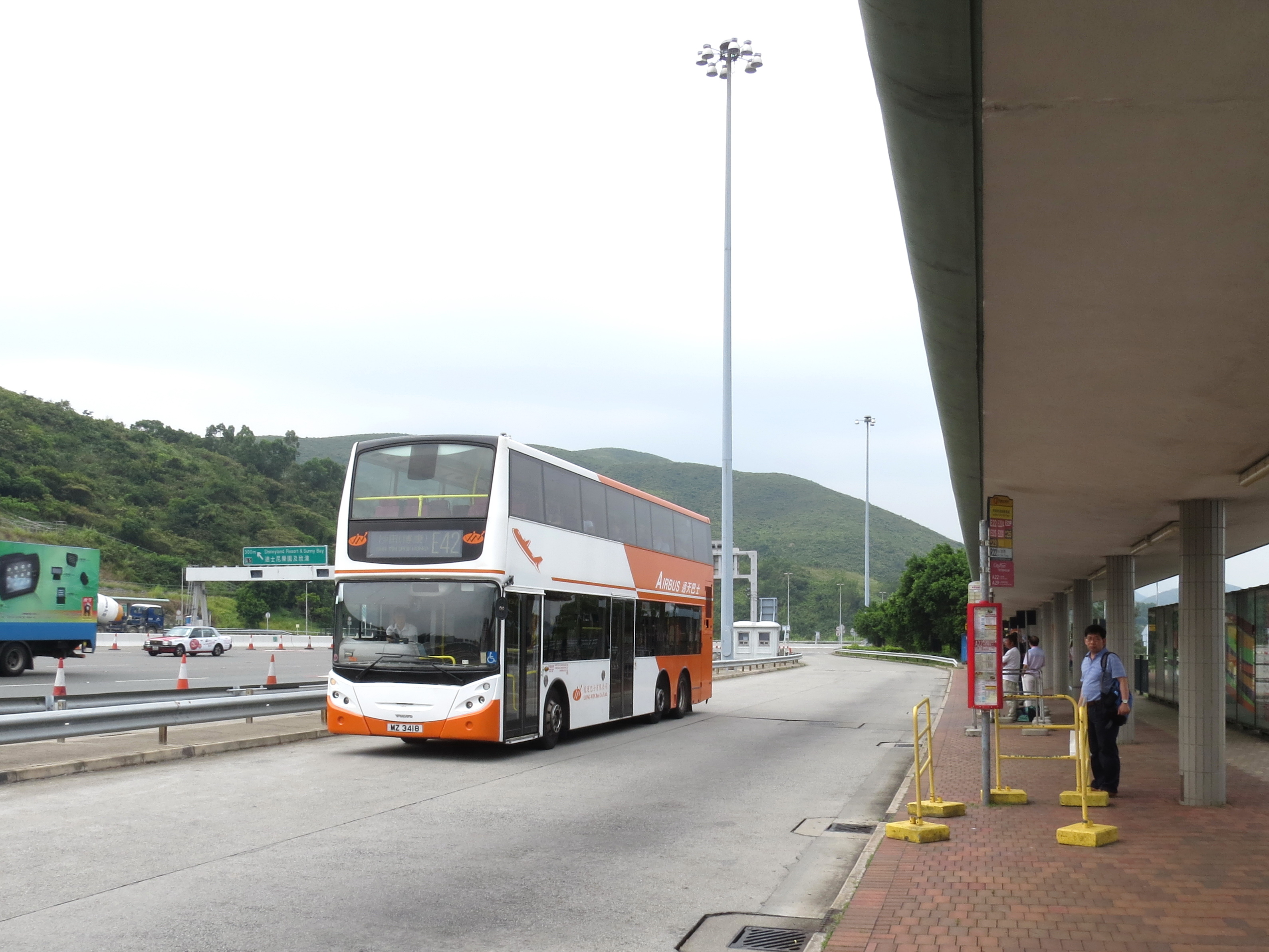 Lantau Link toll plaza, New Territories, Hong Kong.